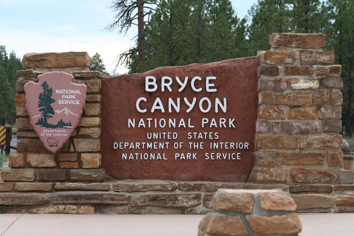 Entrance sign at Bryce Canyon National Park.